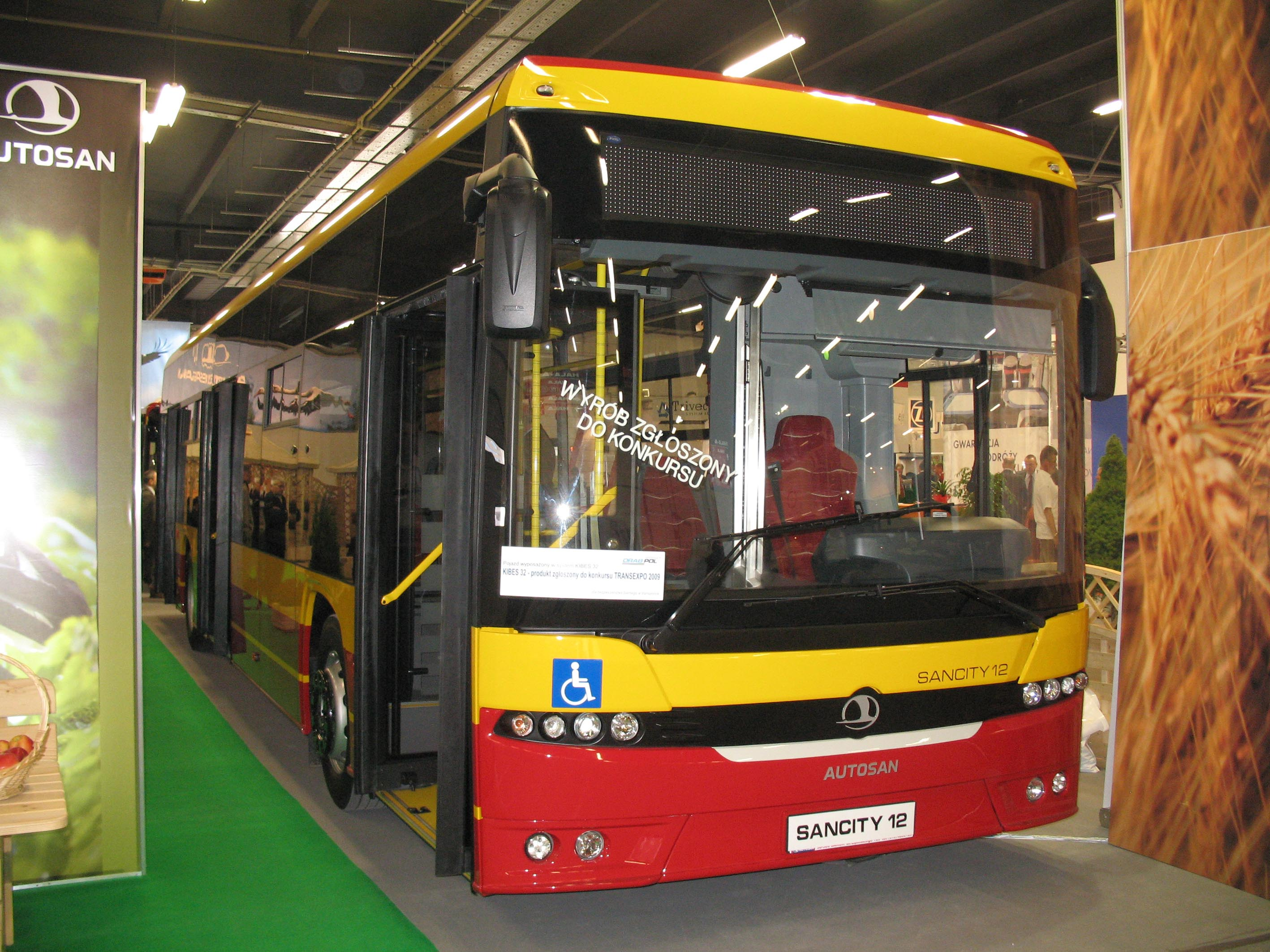 Autosan M12LE Sancity bus in Kielce, Poland. Built 2009. Transexpo 2009.